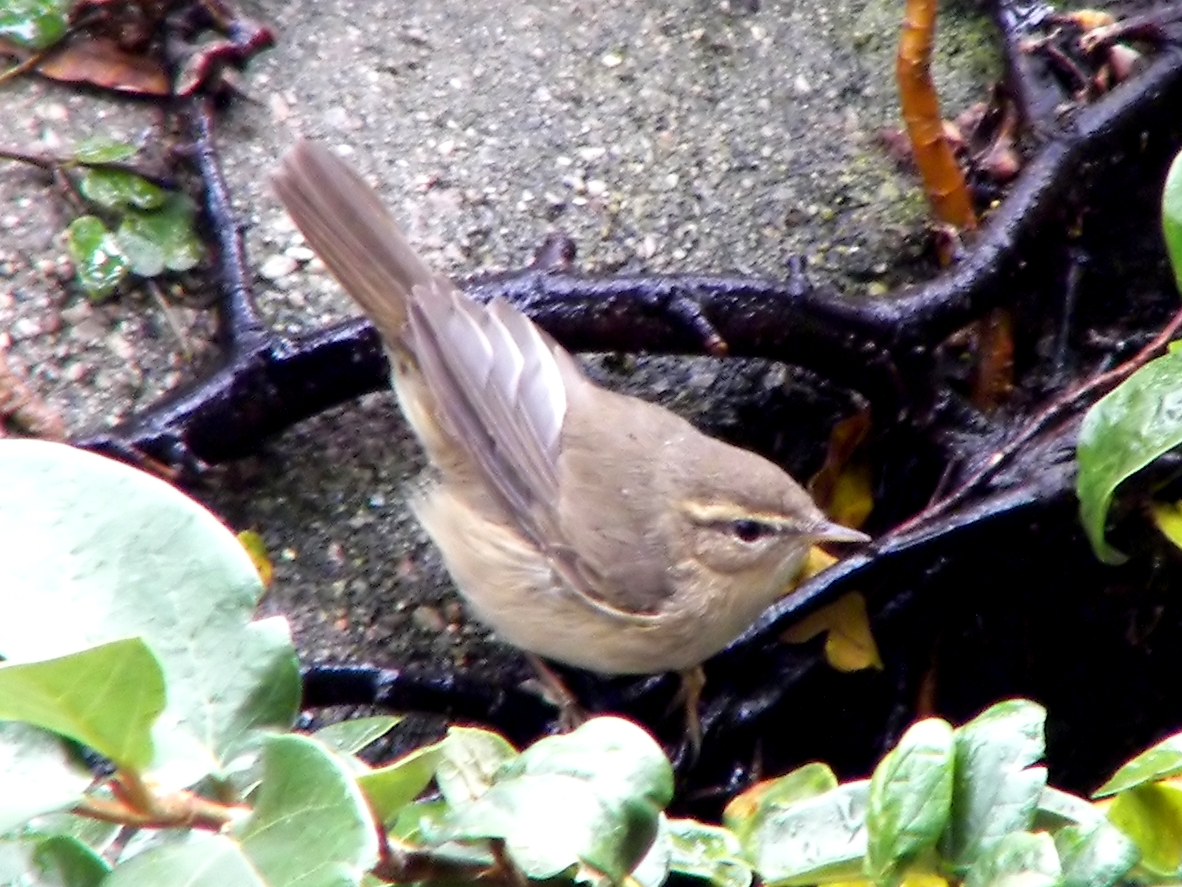 Dusky Warbler Phylloscopus fuscatus, Kowloon, Hong Kong